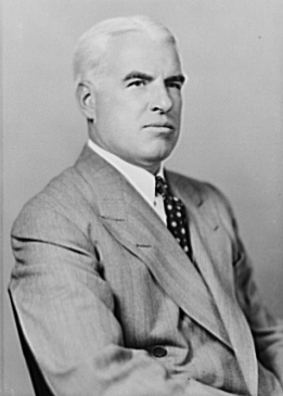 Edward Stettinius, Jr., American politician.